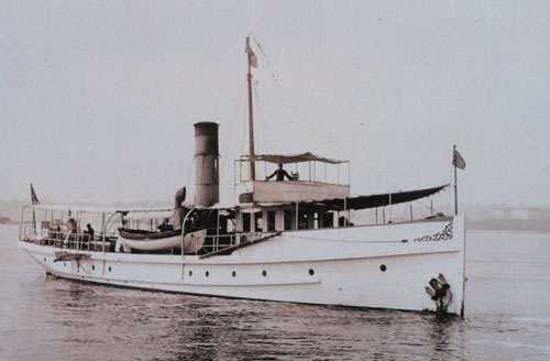 United States Coast and Geodetic Survey survey ship USC&GS Hydrographer